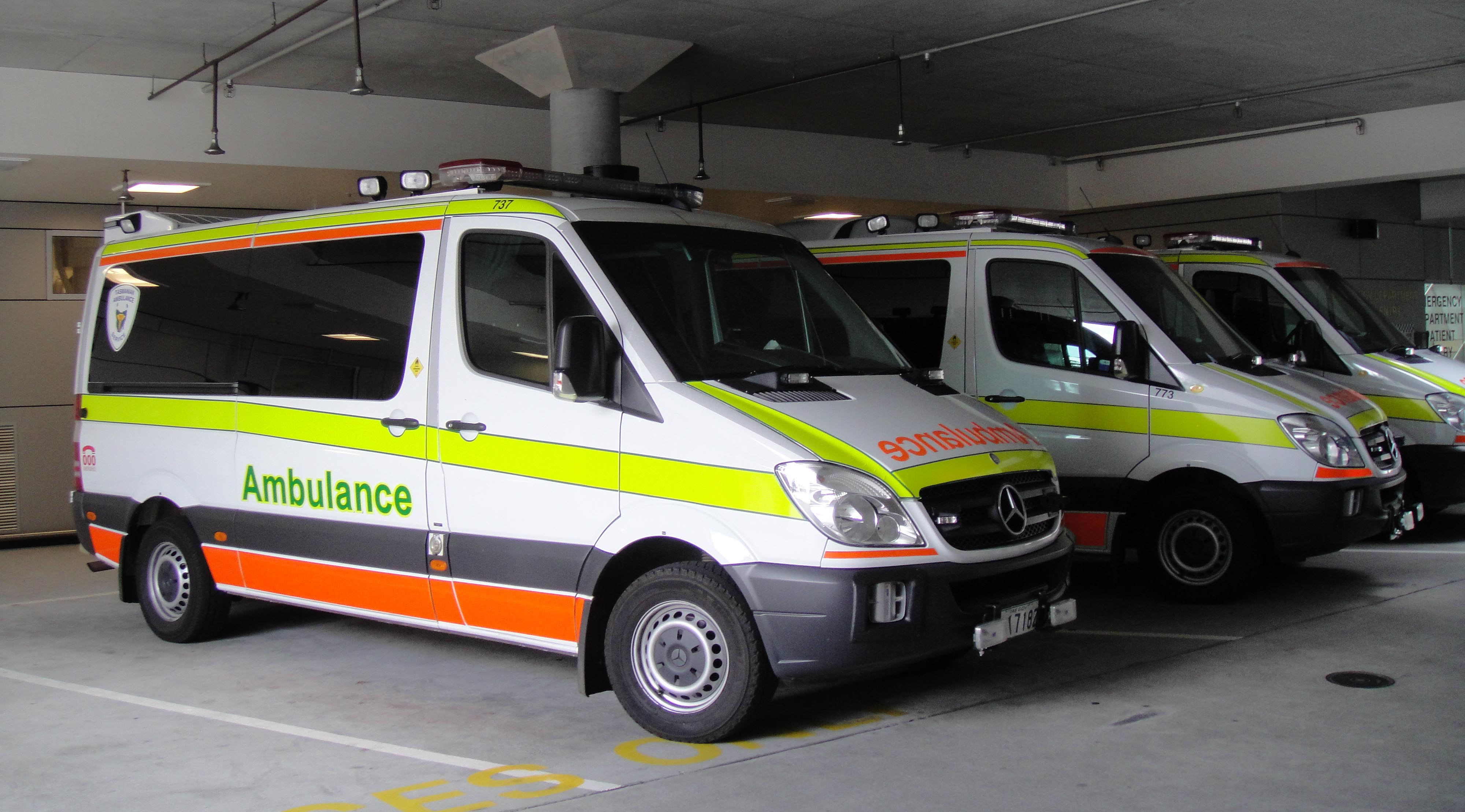 Ambulances lined up at Royal Hobart Hospital emergency department, with "AMBULANCE" in mirror writing ("ECNALUBMA").